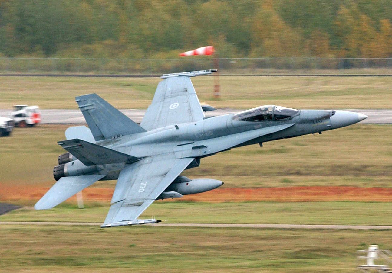 A Royal Canadian Air Force (RCAF) CF-18 Hornet, 4-Wing, takes off from Cold Lake, Alberta, Canada during the second Tiger Meet of the Americas. The Hornet is carrying two types of Air Combat Maneuvering Instrumentation (ACMI) pods on the wing tips. The Tiger Meet of the Americas, first ever held in Canada, inaugurated in 2001 in the Western Hemisphere to carry on the Tiger tradition of the long-established European original experience; promoting solidarity and operational understanding between NATO members. The Meet attracted 400 participants and over 20 aircraft, with at least 6 fighter jets painted in distinctive "Tiger" schemes. For a squadron to be invited, only one simple criterion required, the unit must have a Tiger or other big cat on their unit's insignia or as a mascot.Location: 4 WING-COLD LAKE, ALBERTA (AB) CANADA (CAN)